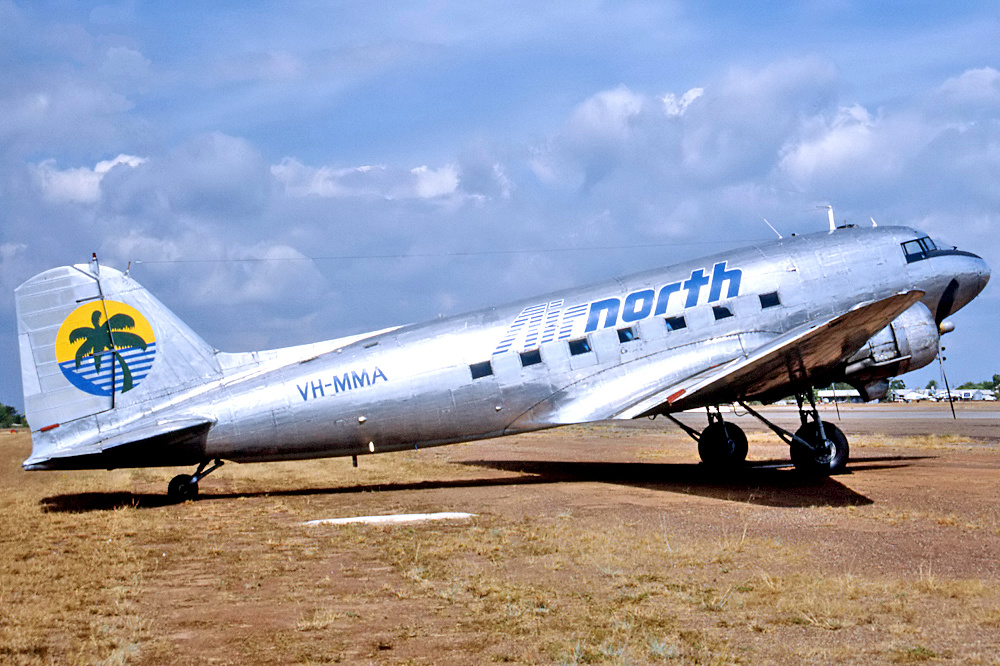 Airnorth Douglas DC-3 at Darwin Airport